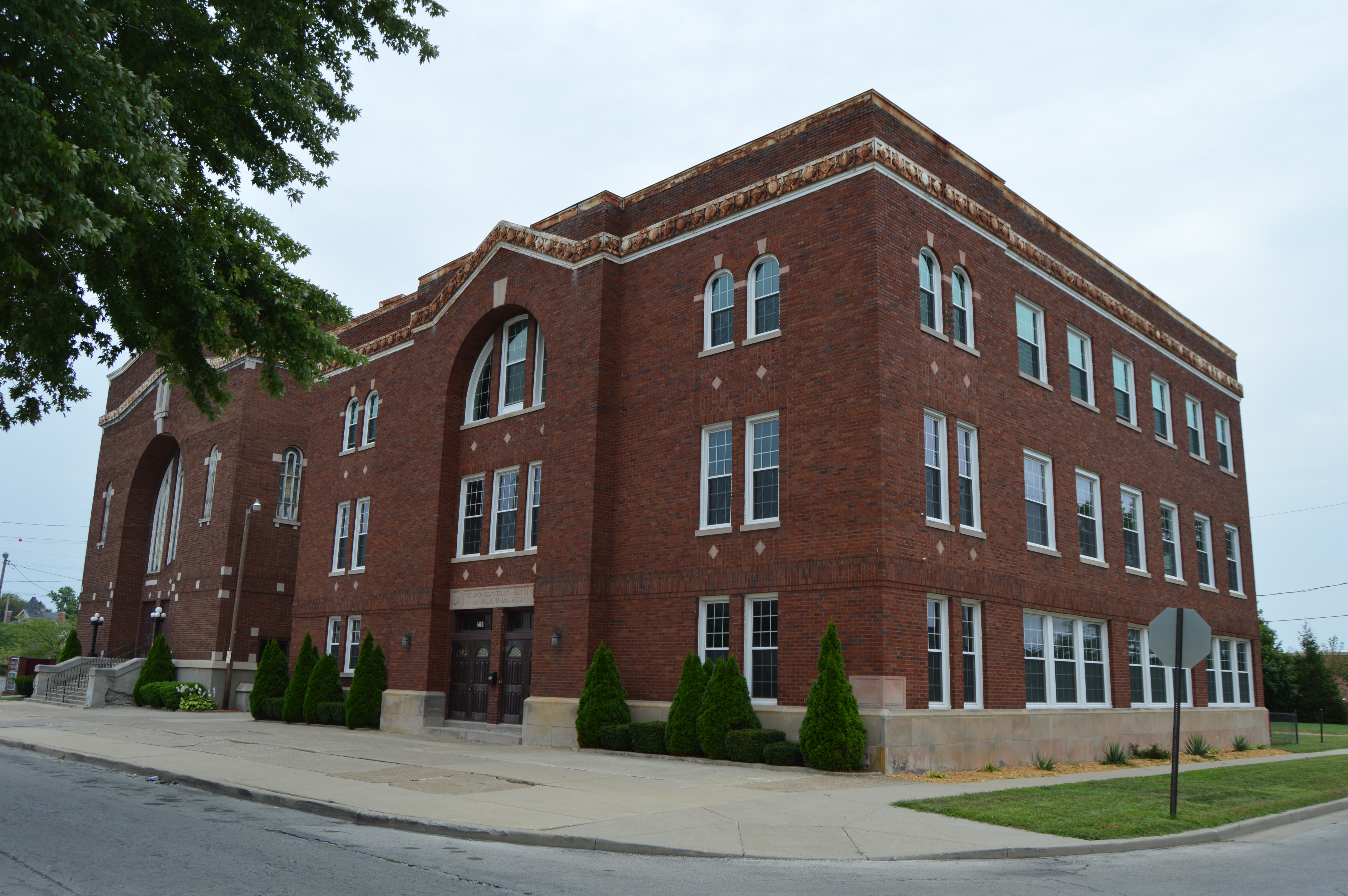 Front and southern sides of the former B'nai Israel Synagogue and its ancillary building (now the True Church of God of the Apostolic Faith), located 2546 N. Twelfth Street in Toledo, Ohio, United States. Built in 1913, it is listed on the National Register of Historic Places.